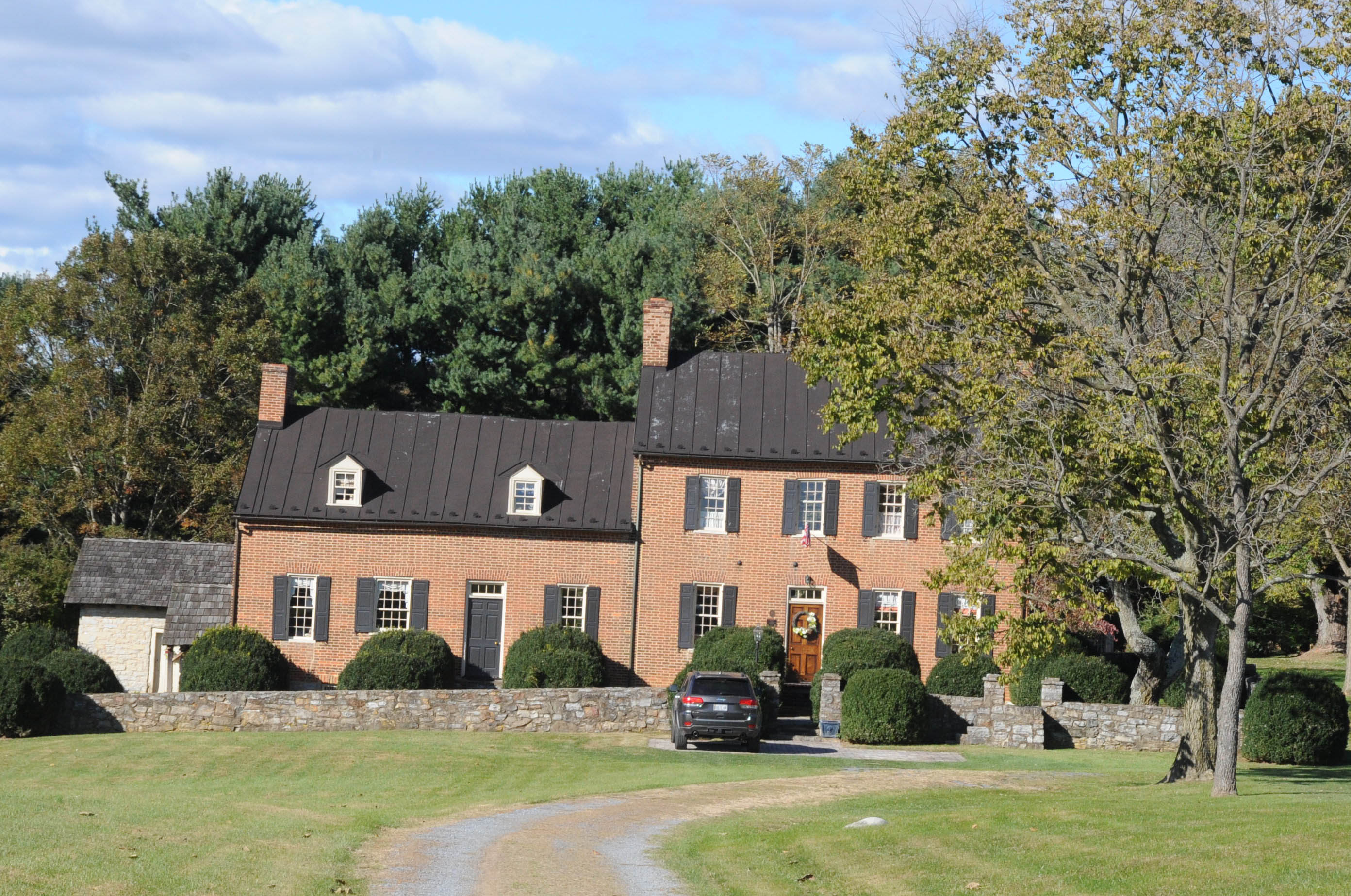 FEDERAL-STYLE FARMHOUSE BUILT IN 1820, WITH A NUMBER OF LATER OUTBUILDINGS